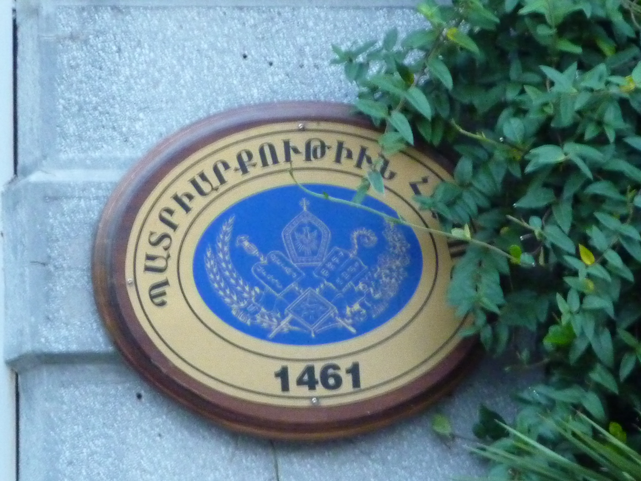 The office building of the Armenian Patriarchate of Constantinople, across the street from the Surp Asdvadzadzin Patriarchal Church.